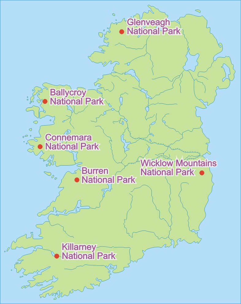 National Parks in the Republic of Ireland